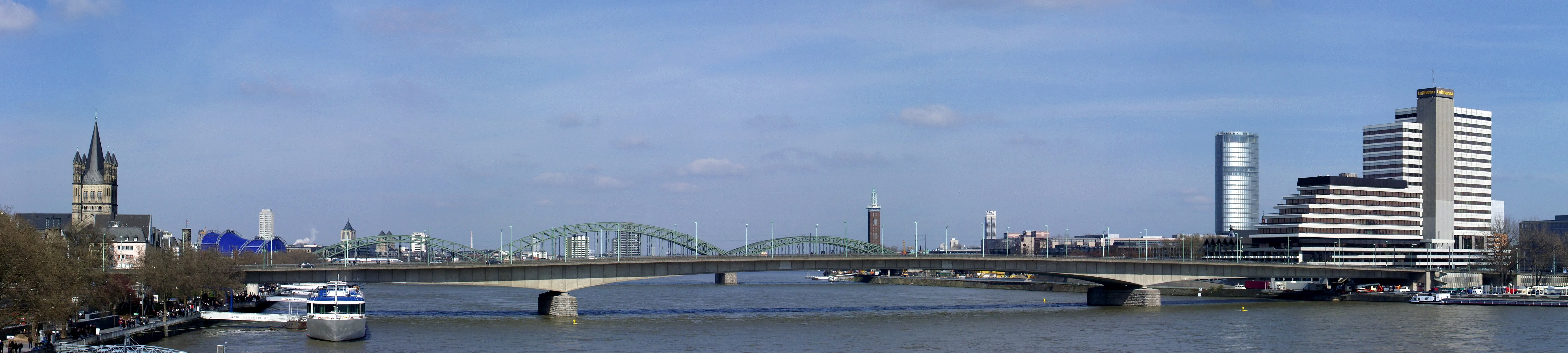 Deutzer Brücke, Cologne. View from the south. The green arches belongs to a bridge behind, the Hohenzollernbrücke.